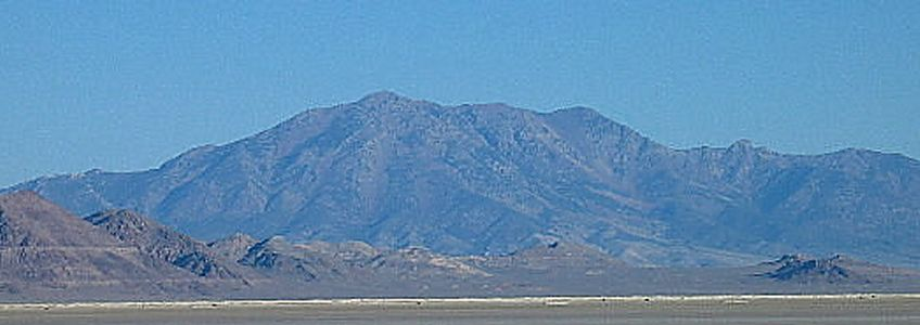 Pilot Peak, Nevada, looking north from I-80